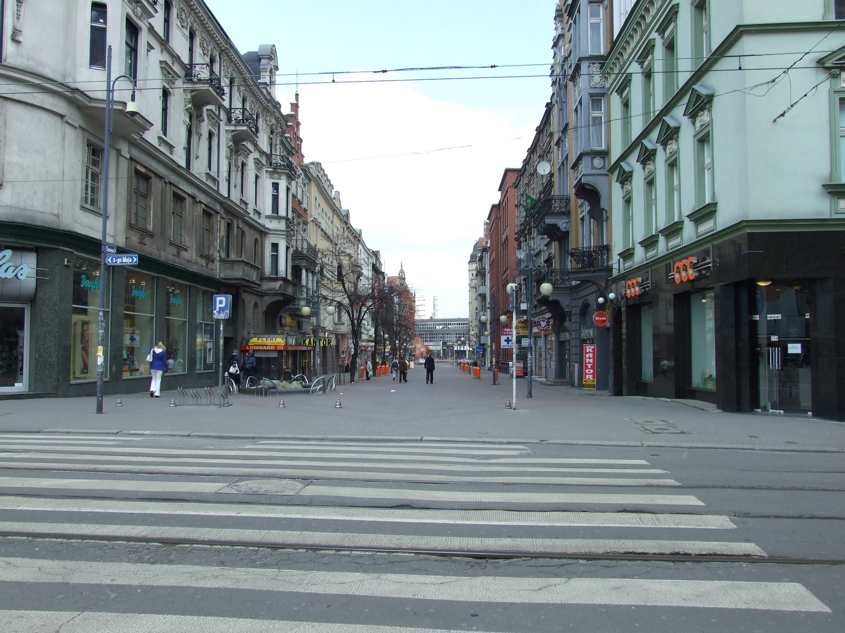 Katowice, city in southern Poland